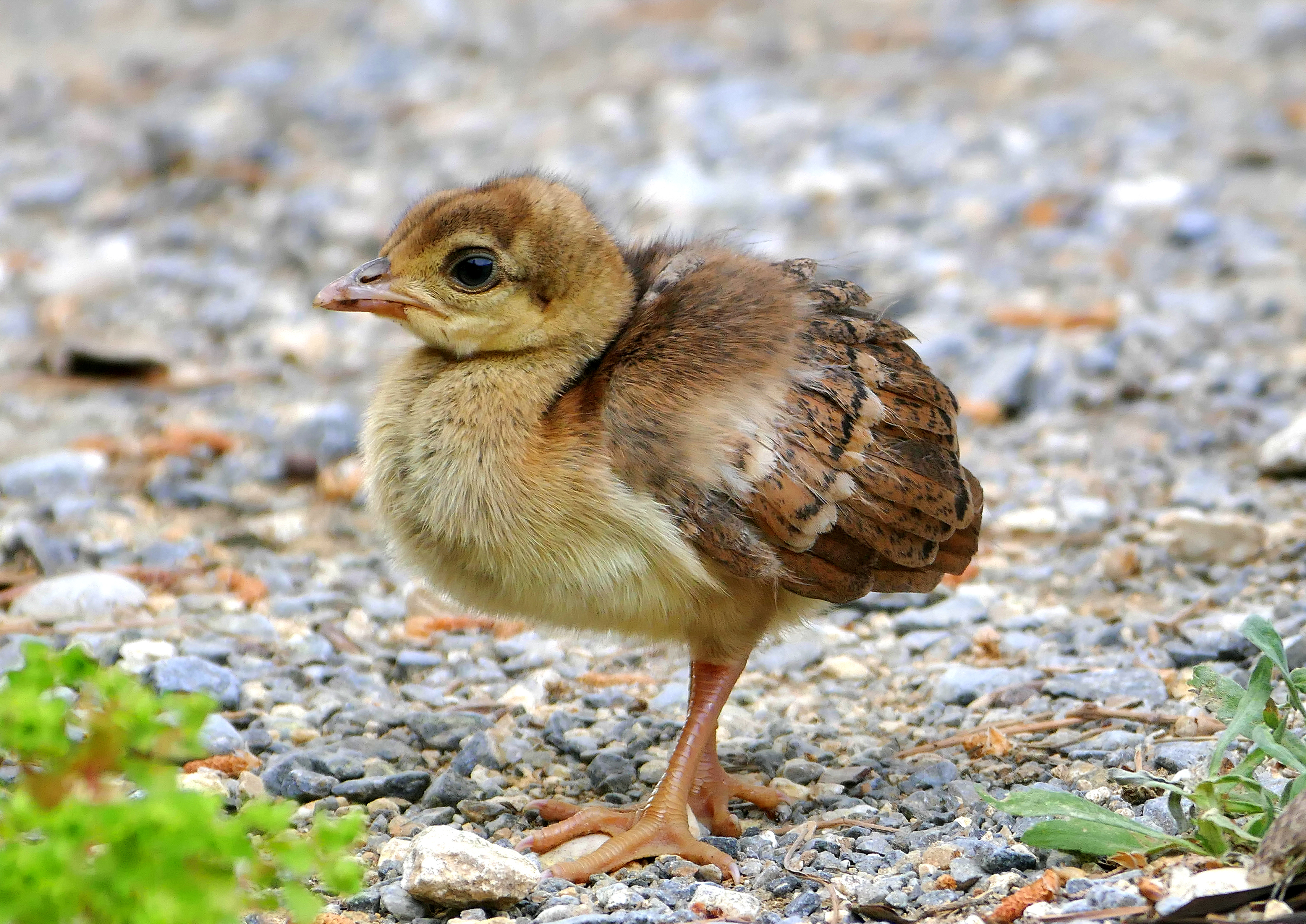 Baby Peacock